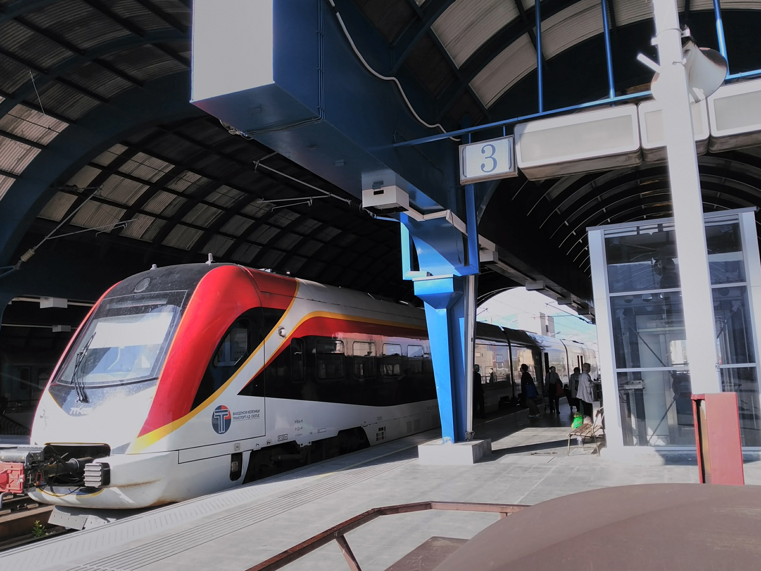 DMU MŽ 711 at Skopje train station